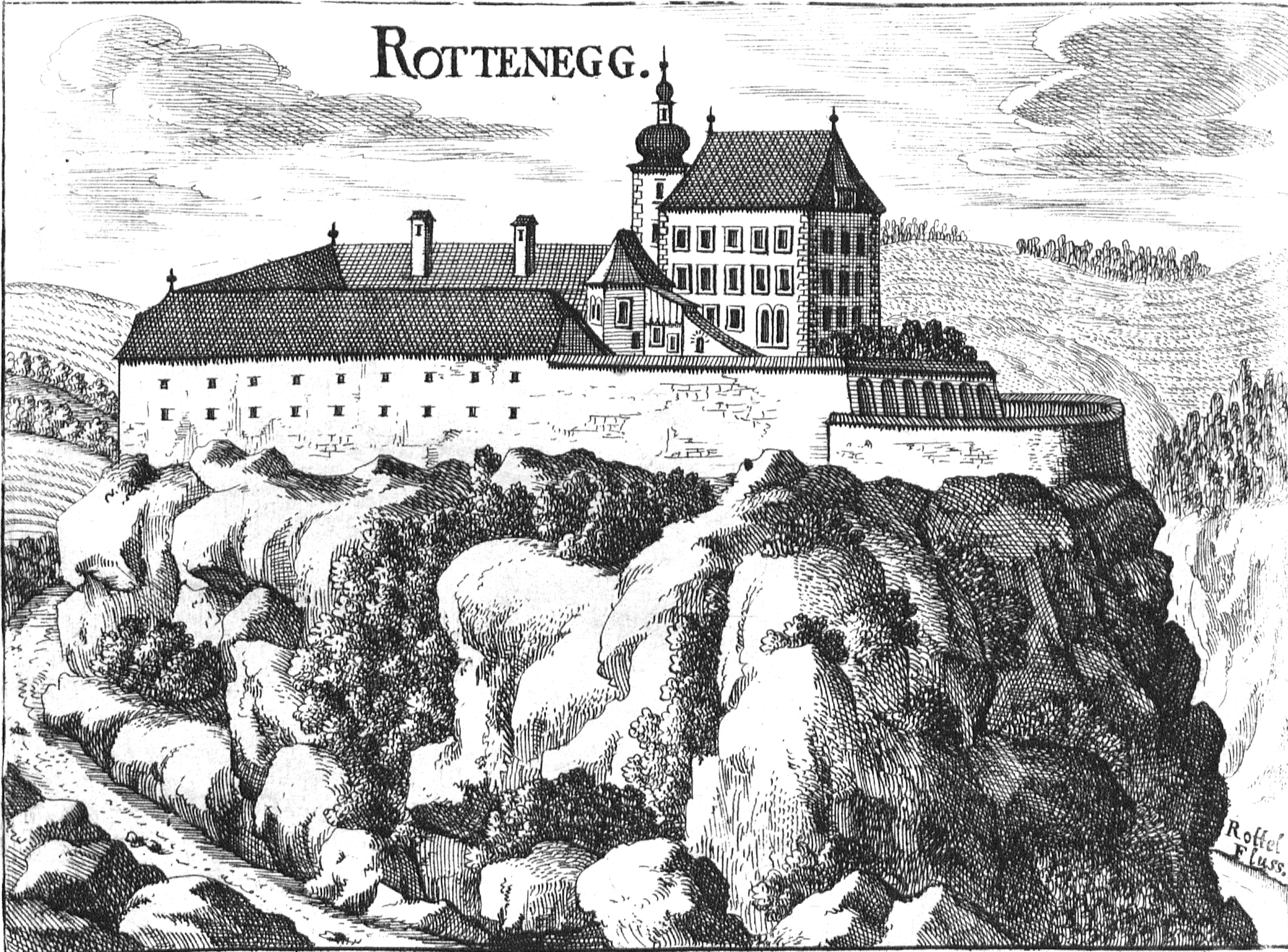 Castle Rottenegg in St. Gotthard im Mühlkreis (Upper Austria), drawn by M. Vischer 1674